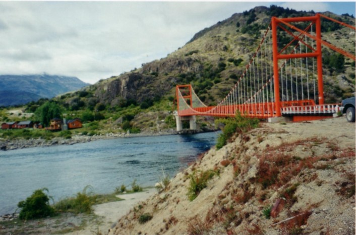 Bridge in Carretera Austral